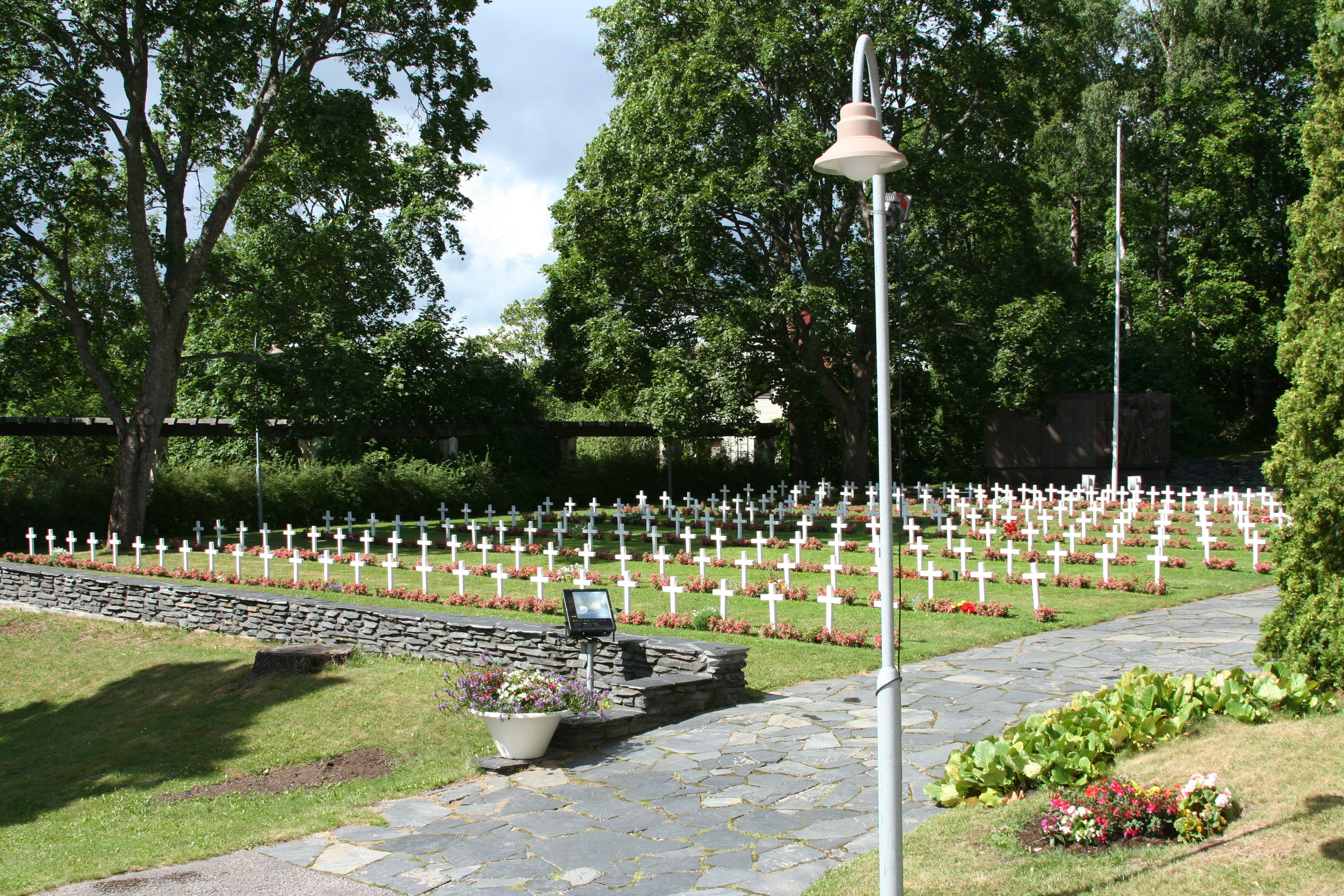 Vihti church, military graveyard, Vihti, Finland